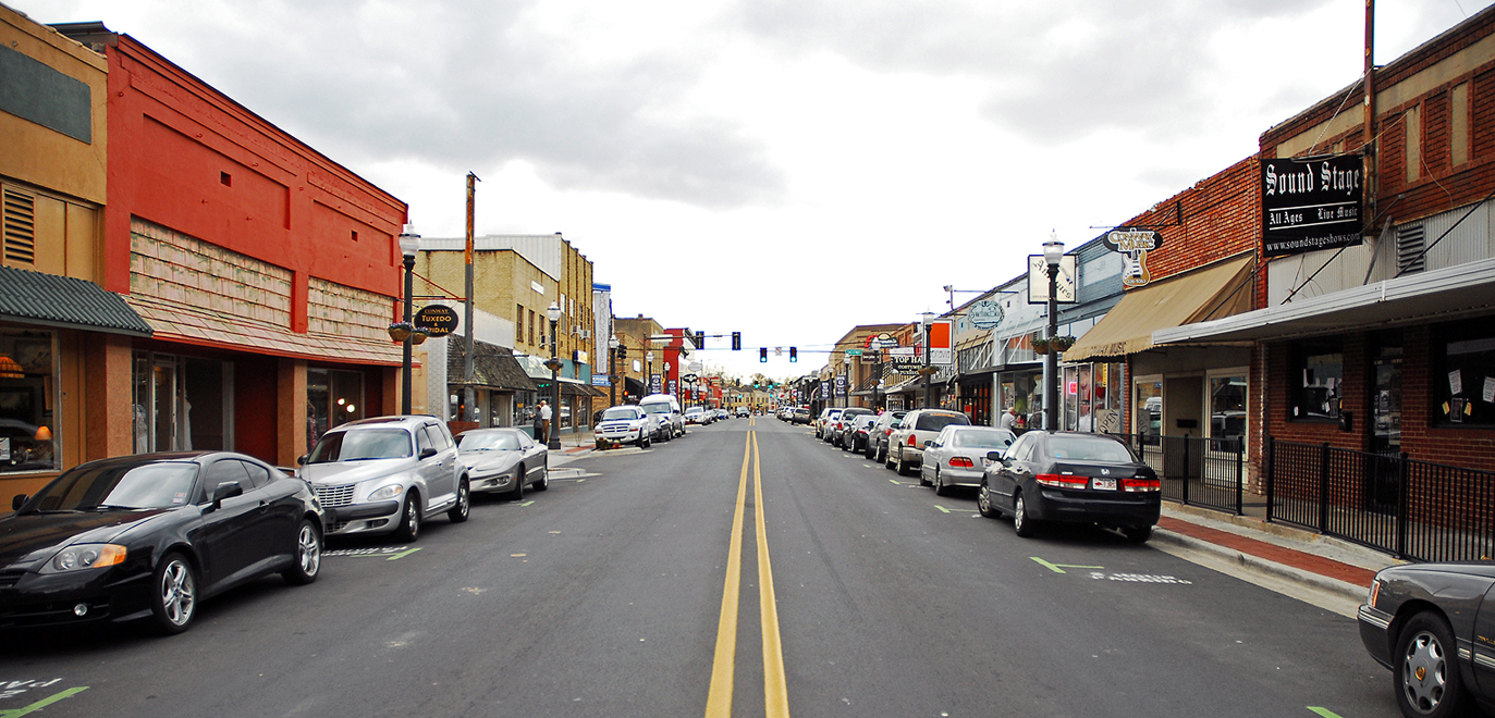 Main Street in Conway, Arkansas, USA.